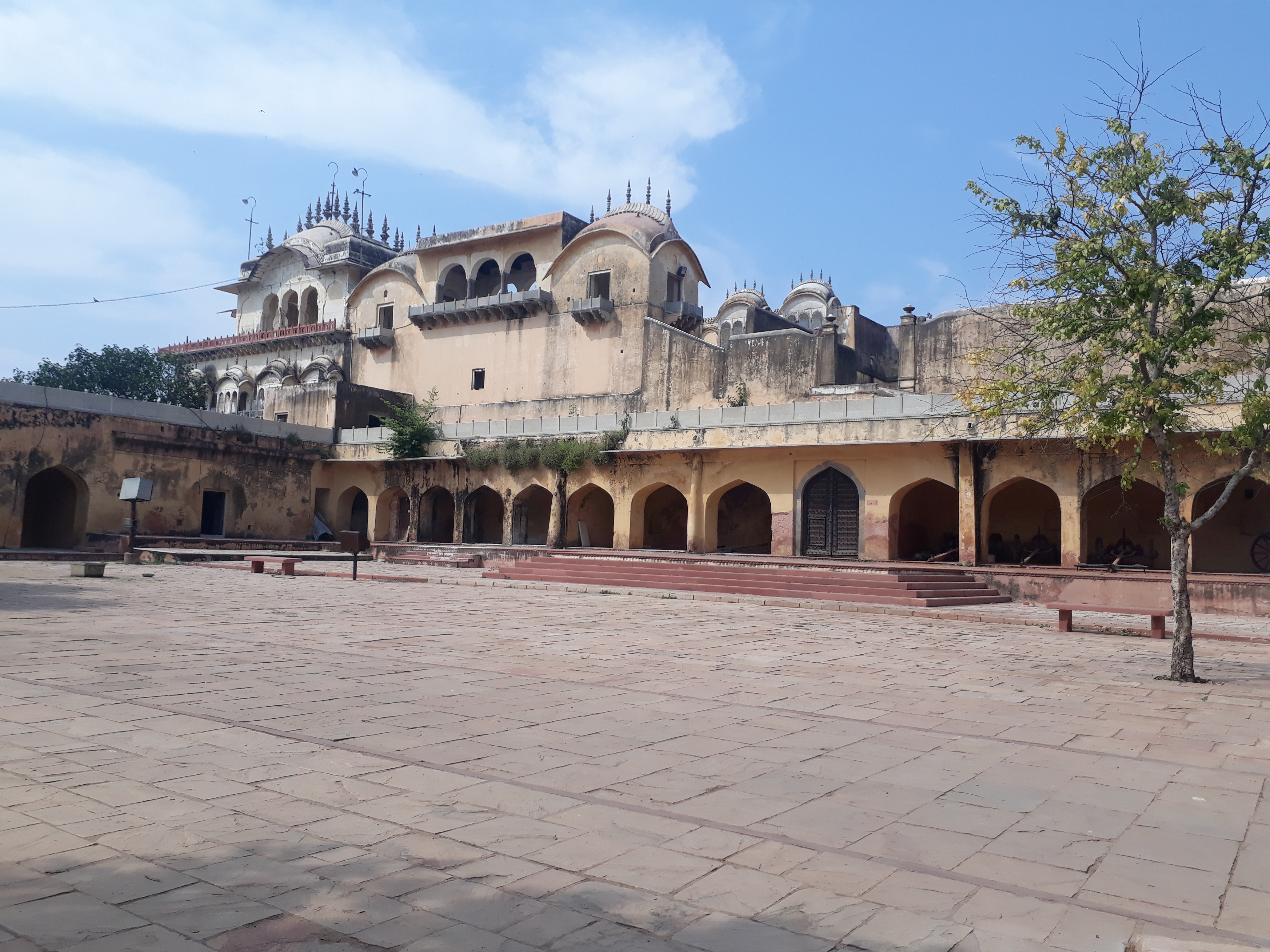 Bala Quila or Alwar fort in Alwar forest, Alwar district, Rajasthan